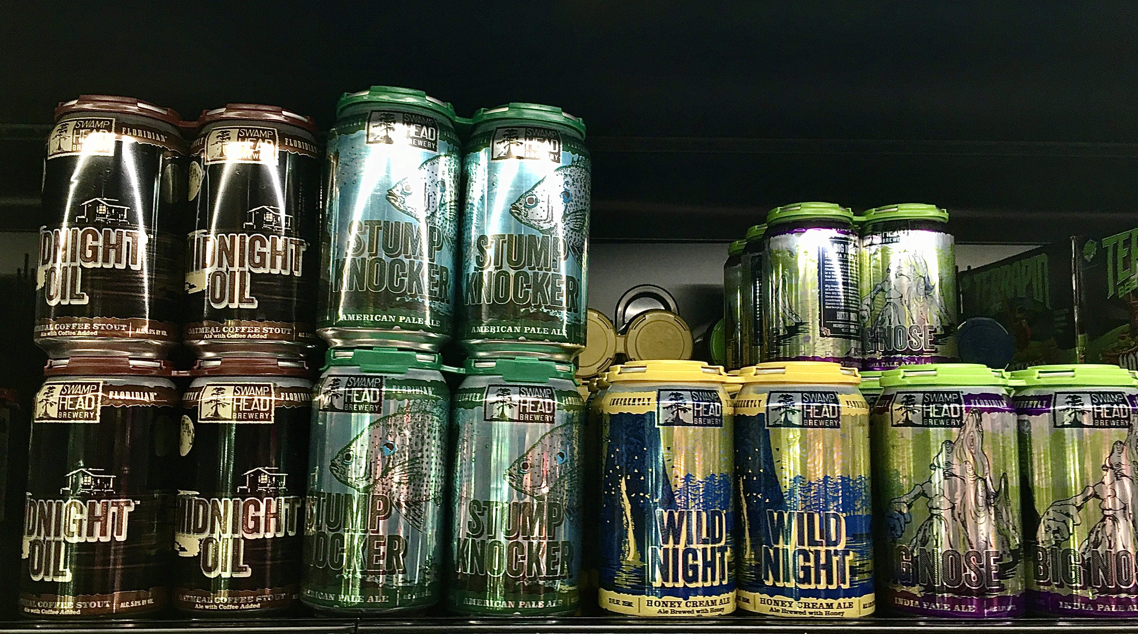 Photo of Swamp Head Brewery beer at a Target store taken by me.